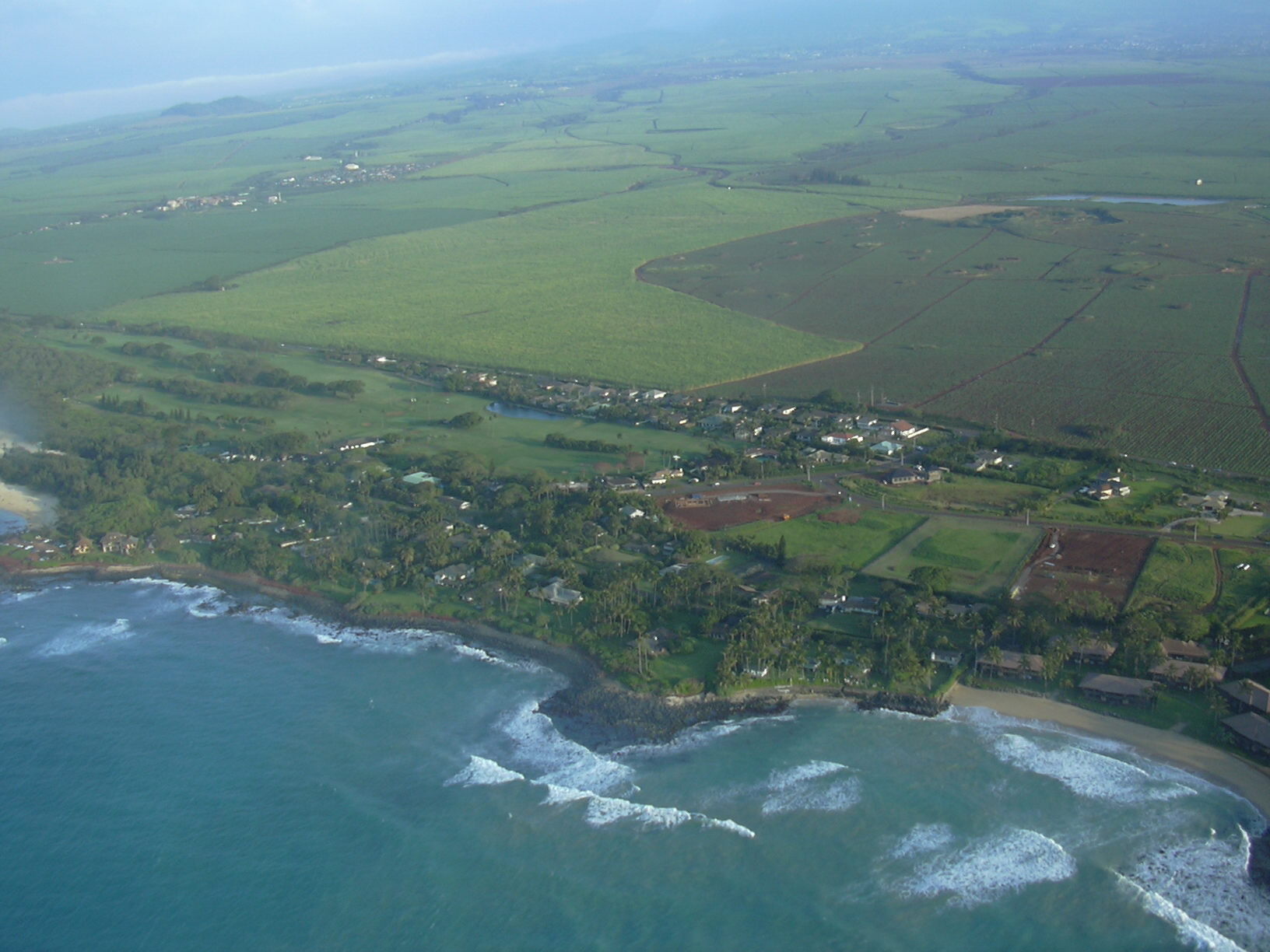 Saccharum officinarum (aerial view). Location: Maui, Spreckelsville